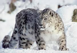 this picture is of a snow leopard which is included in the list of endangered animals.........soo this was the picture i had it when i had been to europe